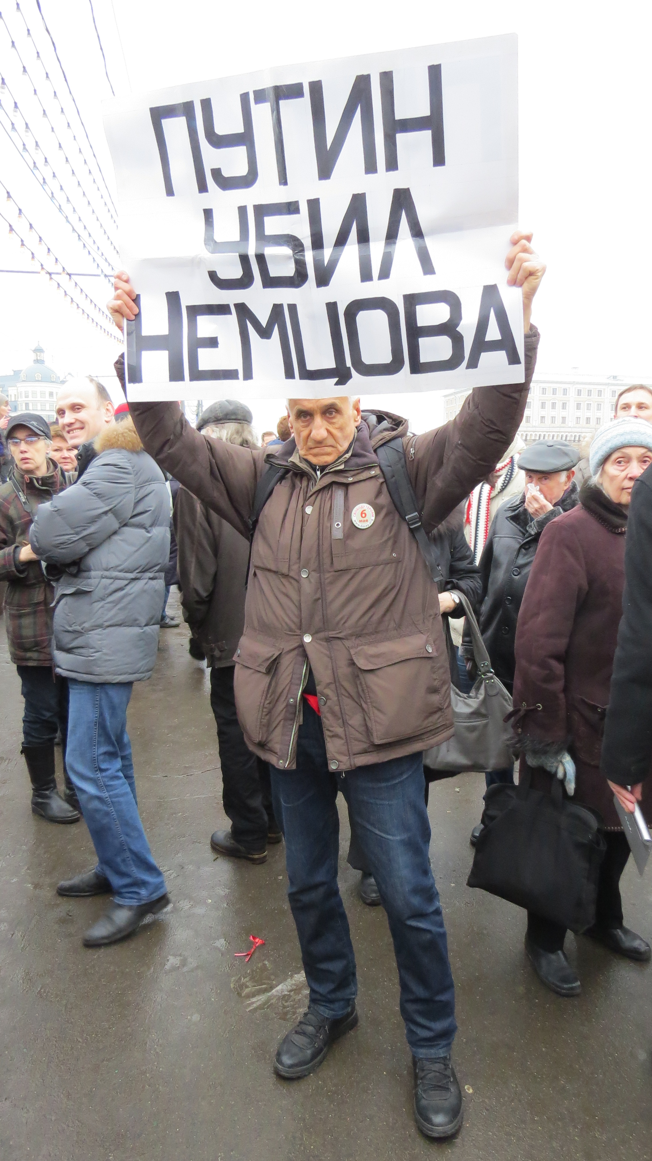 A Russian man displays a sign reading, "PUTIN KILLED NEMTSOV" ("ПУТИН УБИЛ НЕМЦОВА"), while standing on the bridge where opposition politician Boris Nemtsov was shot to death, the day after his murder.